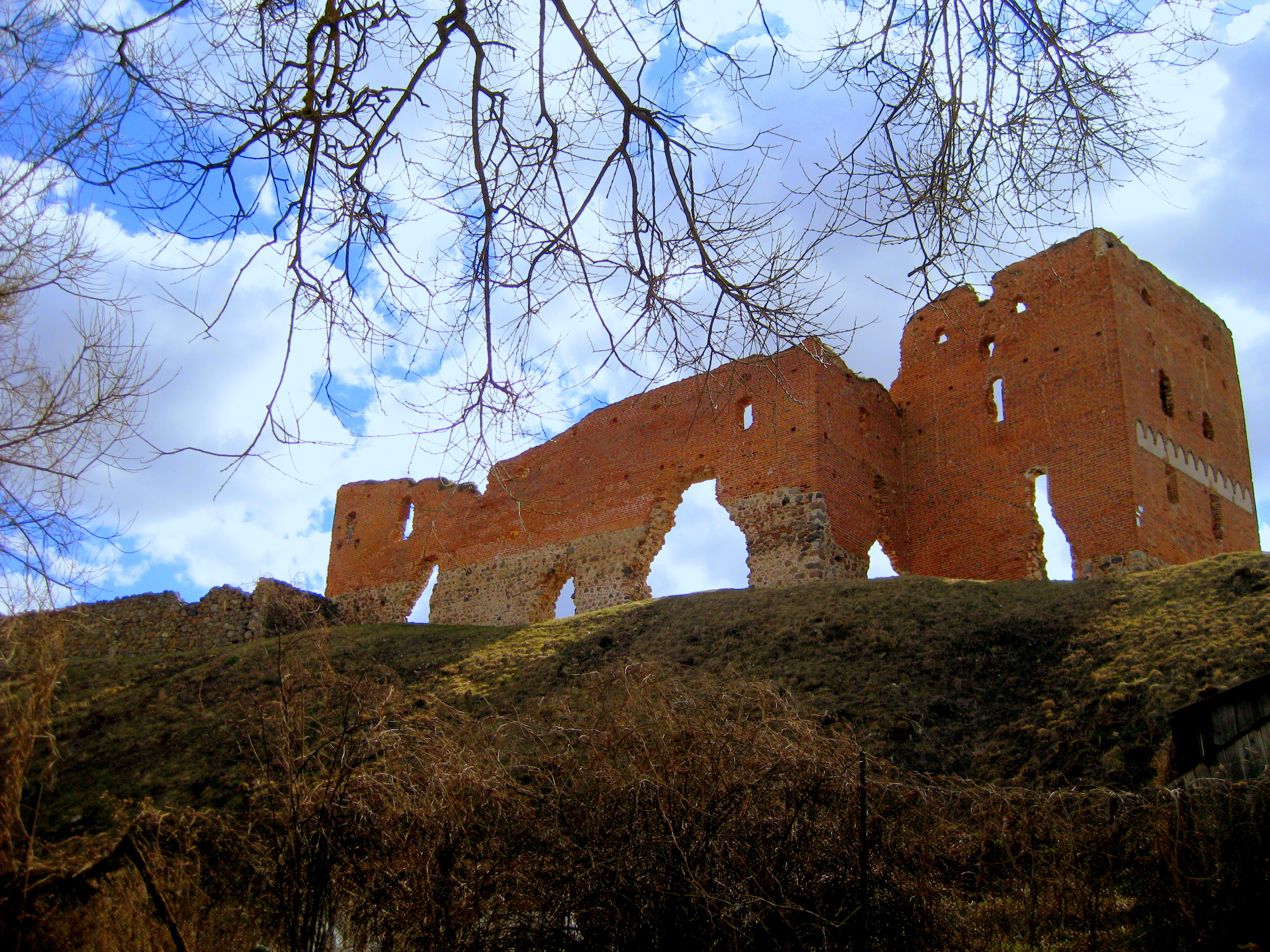 Ludza Castle ruins